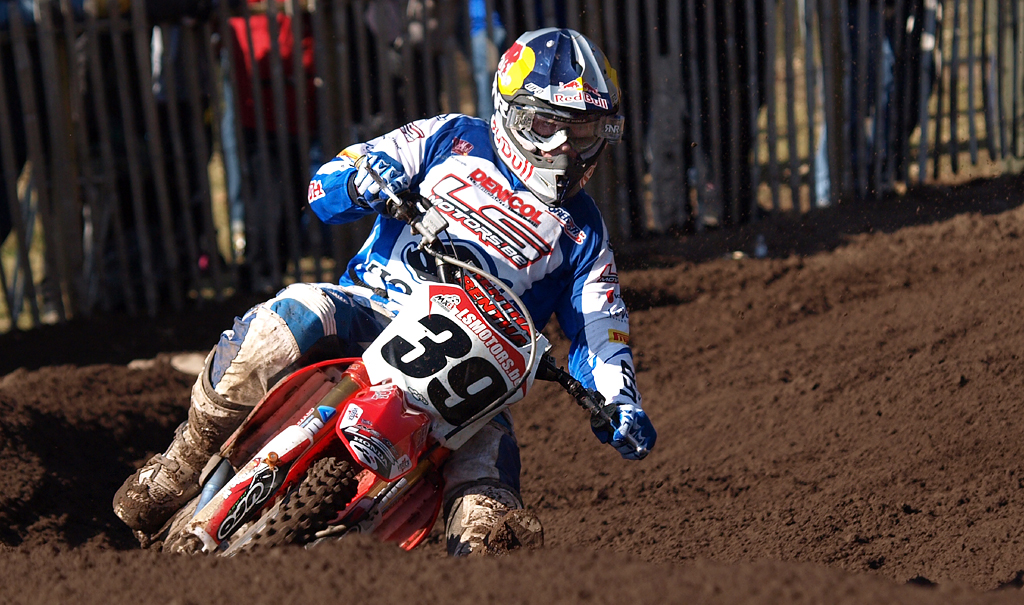 Class: MX1 39 Tanel Leok Race 1. 1st place Race 2. 6th place Overall. 3rd Place